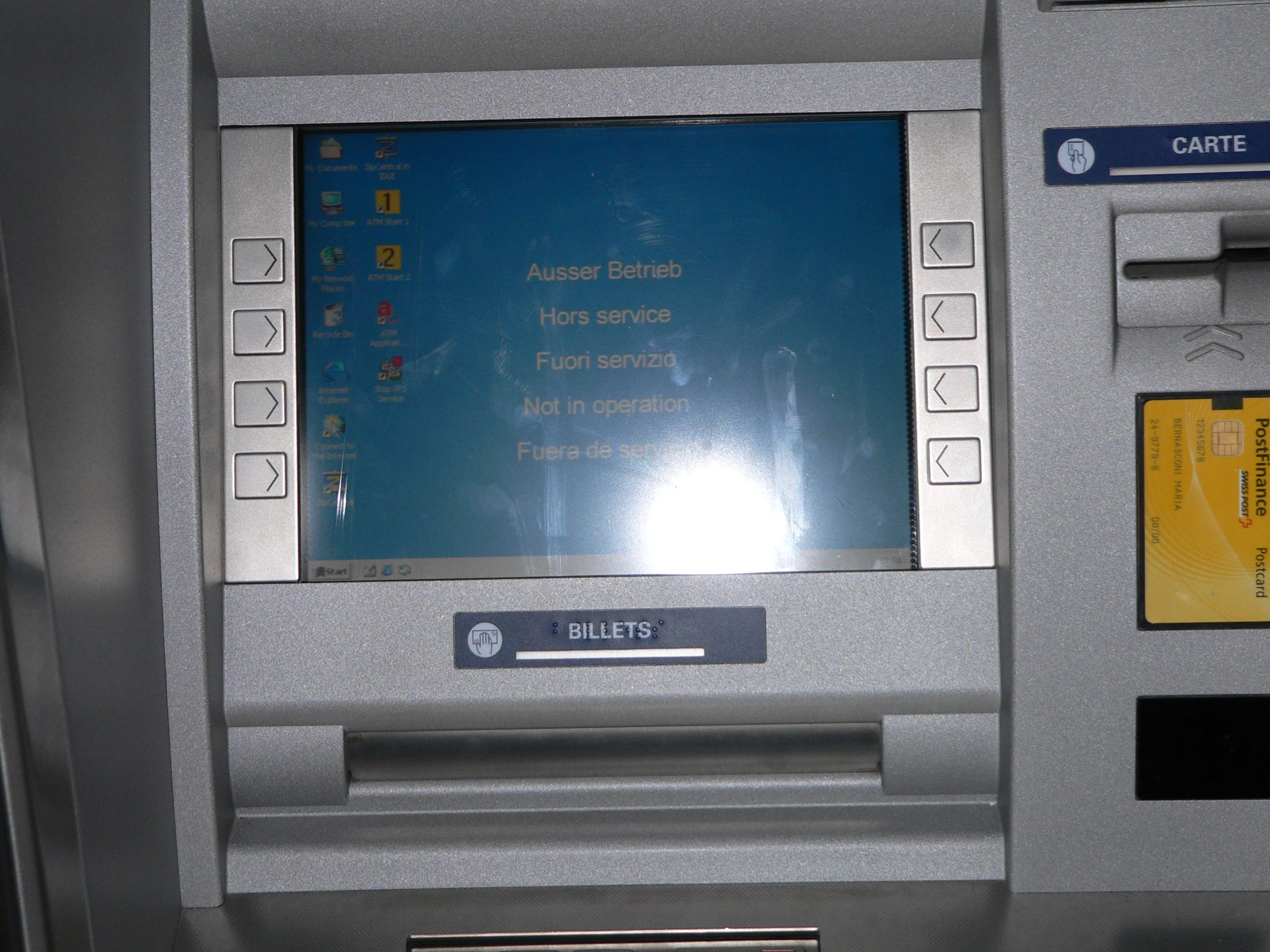 Wincor-Nixdorf ProCash 2050 Cash Dispenser.